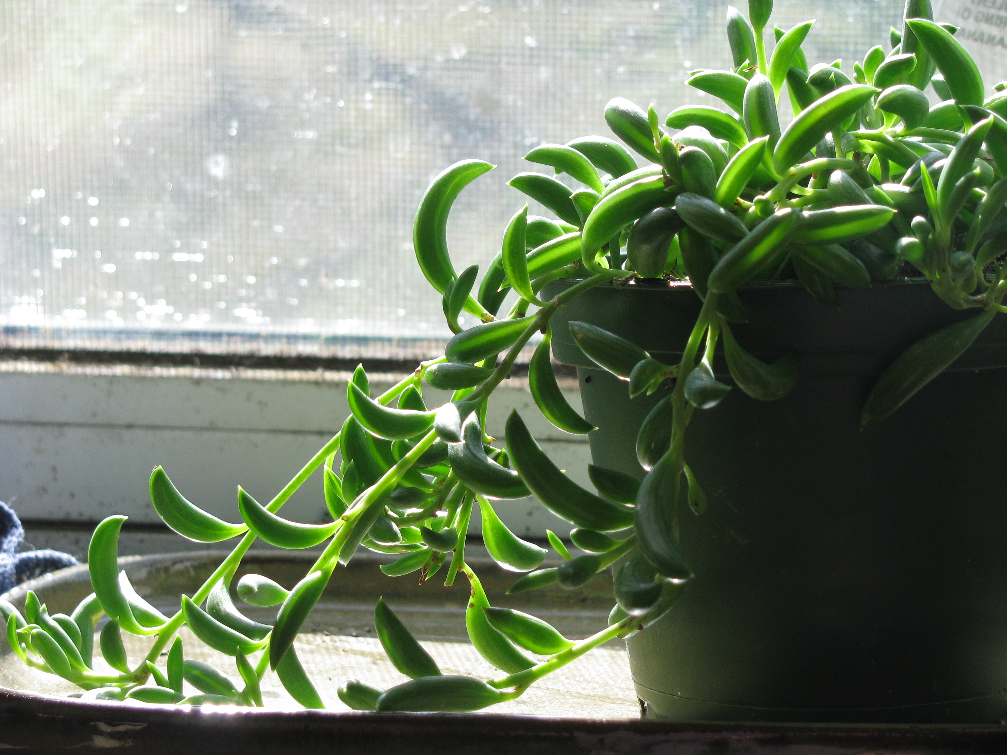 "String of Bananas" from Homeside Florist and Greenhouses, Inc. In Riverhead, N.Y.